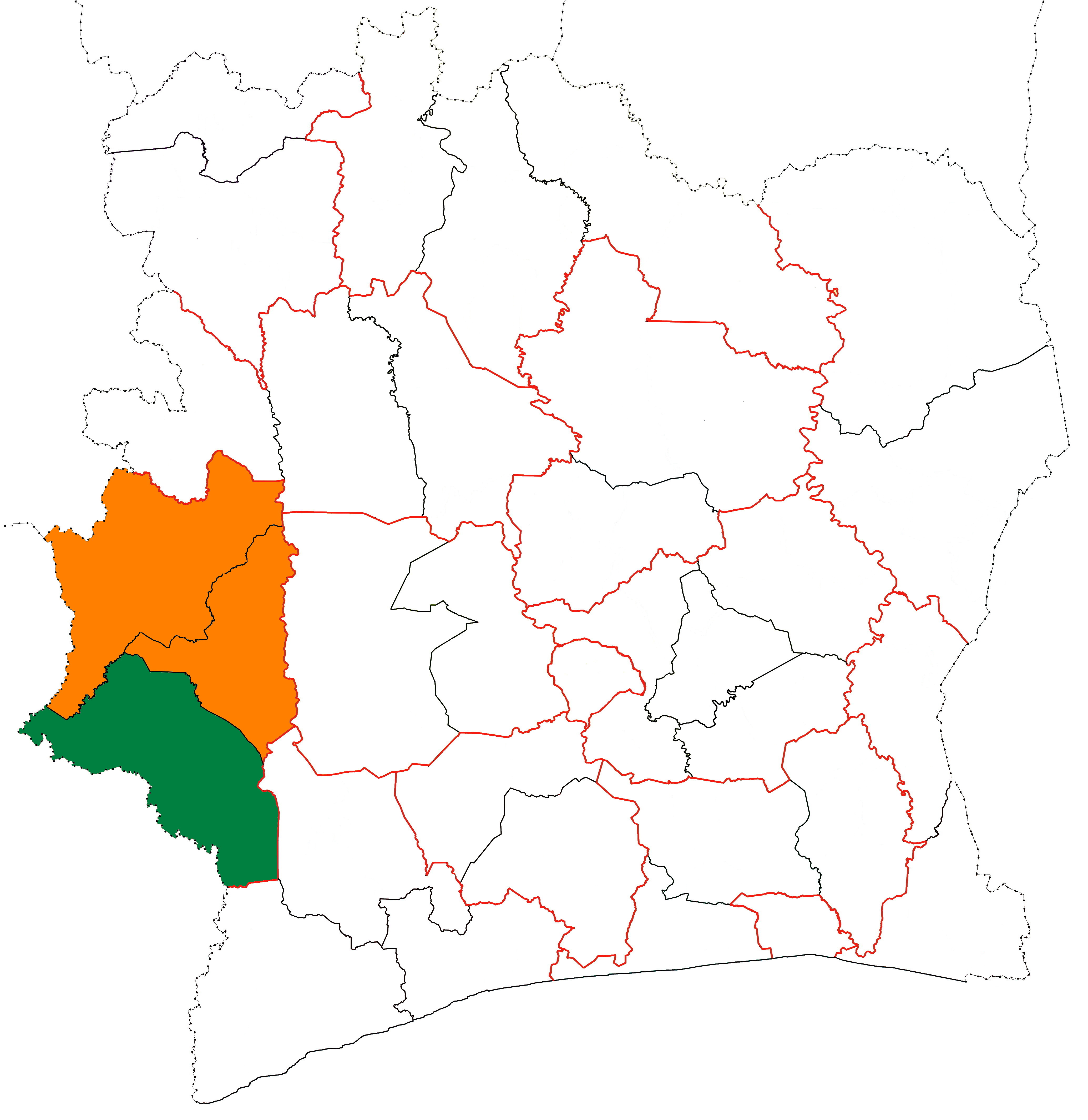 The location of Cavally region (green) in Côte d'Ivoire. The other shaded areas represent the other parts of Montagnes District.